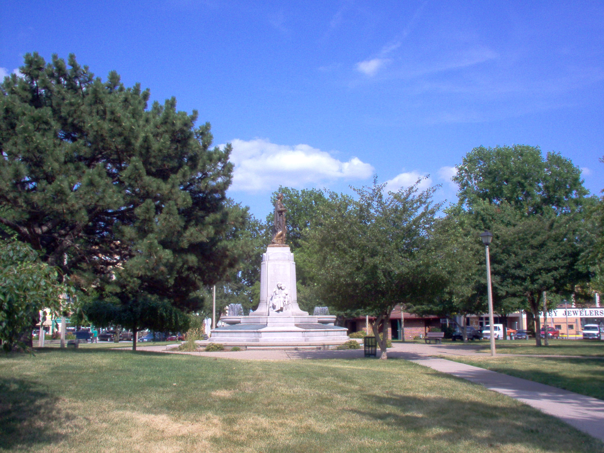 The memorial on the square in downtown Jacksonville, IL. Civil War memorial dedicated in 1920 ([1]).